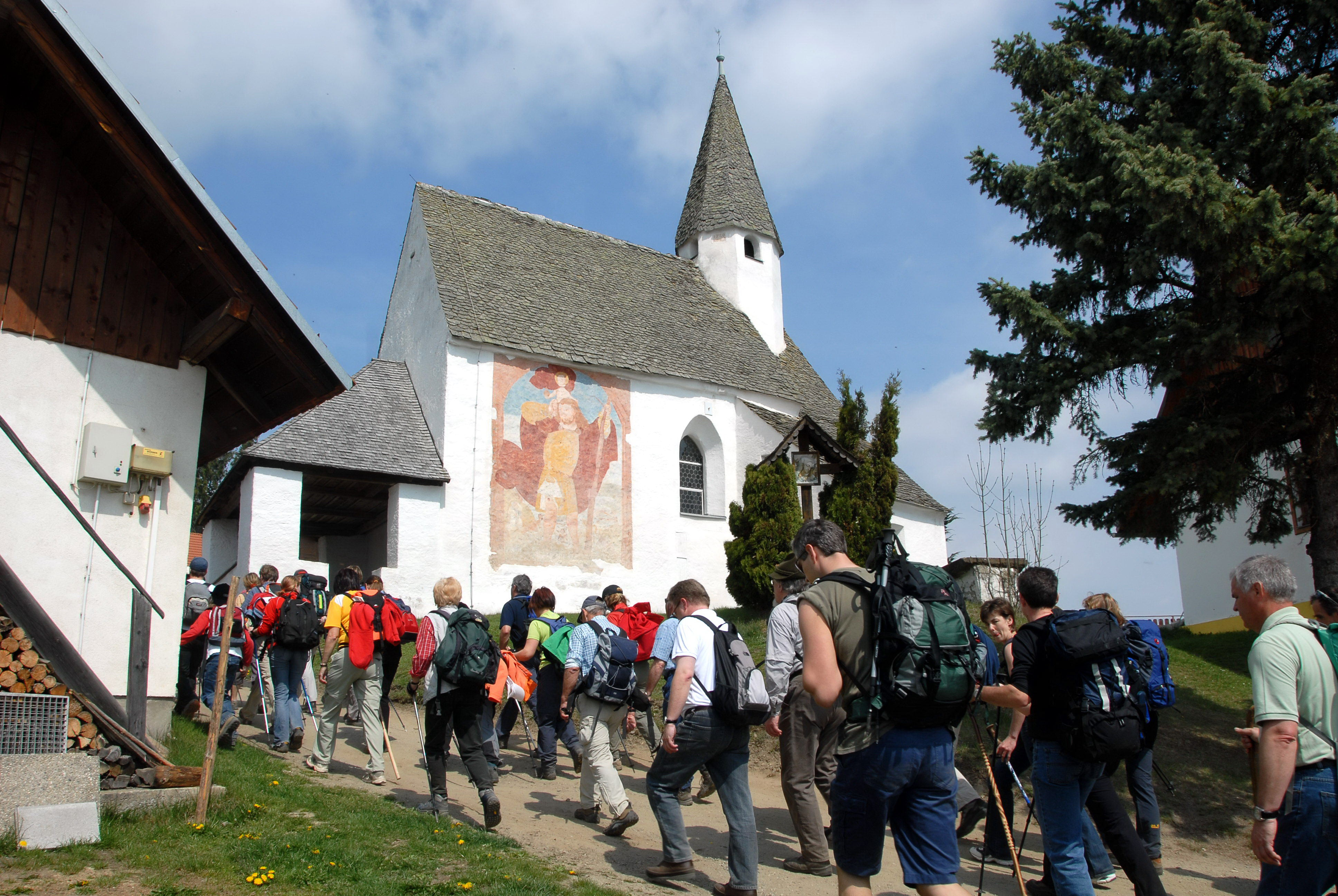 Subsidiary church Saint Lawrence in Lorenziberg, municipality Frauenstein, district Sankt Veit an der Glan, Carinthia, Austria, EU